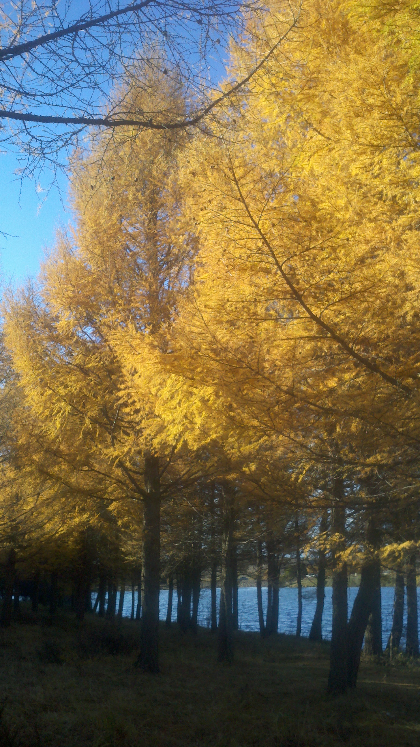 Larches in autumn colours by Tai Feng Lake, San Han Ba Sate Forest Park, Hebei, China